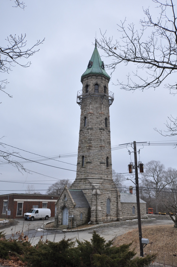 Water tower, part of the 1873 Fall River Waterworks, Fall River, Massachusetts.